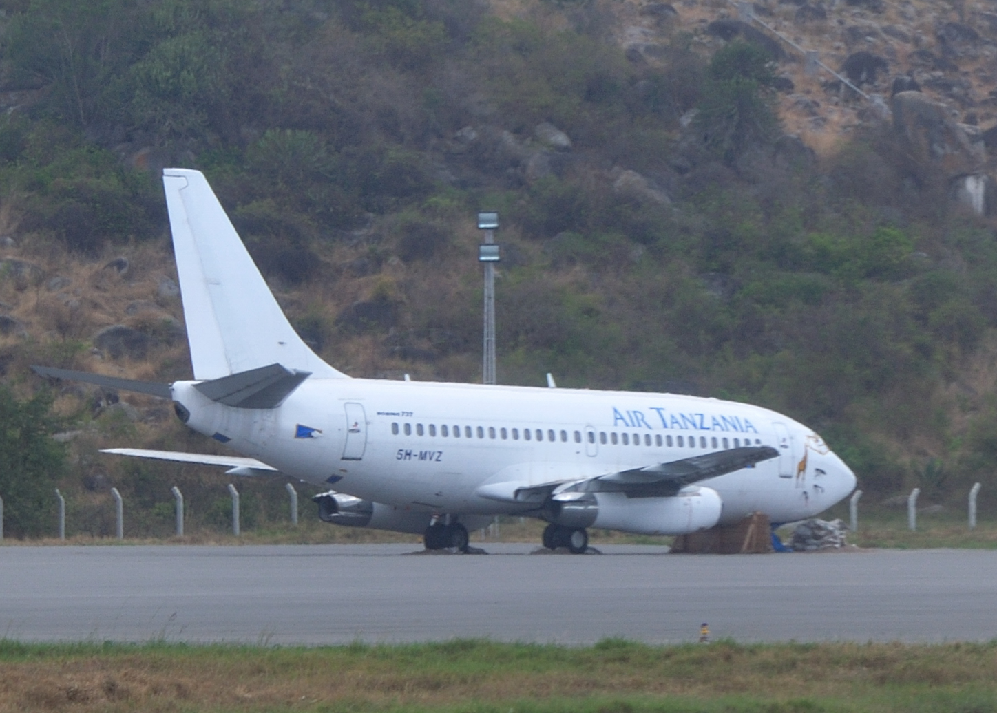 Tanzania, Air Tanzania's Boeing 737-247/Adv. 5H-MVZ parked with a damaged nose gear in Mwanza. It is obviously standing there for many months now.